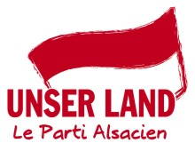 Logo of the alsatian party "Unser Land"